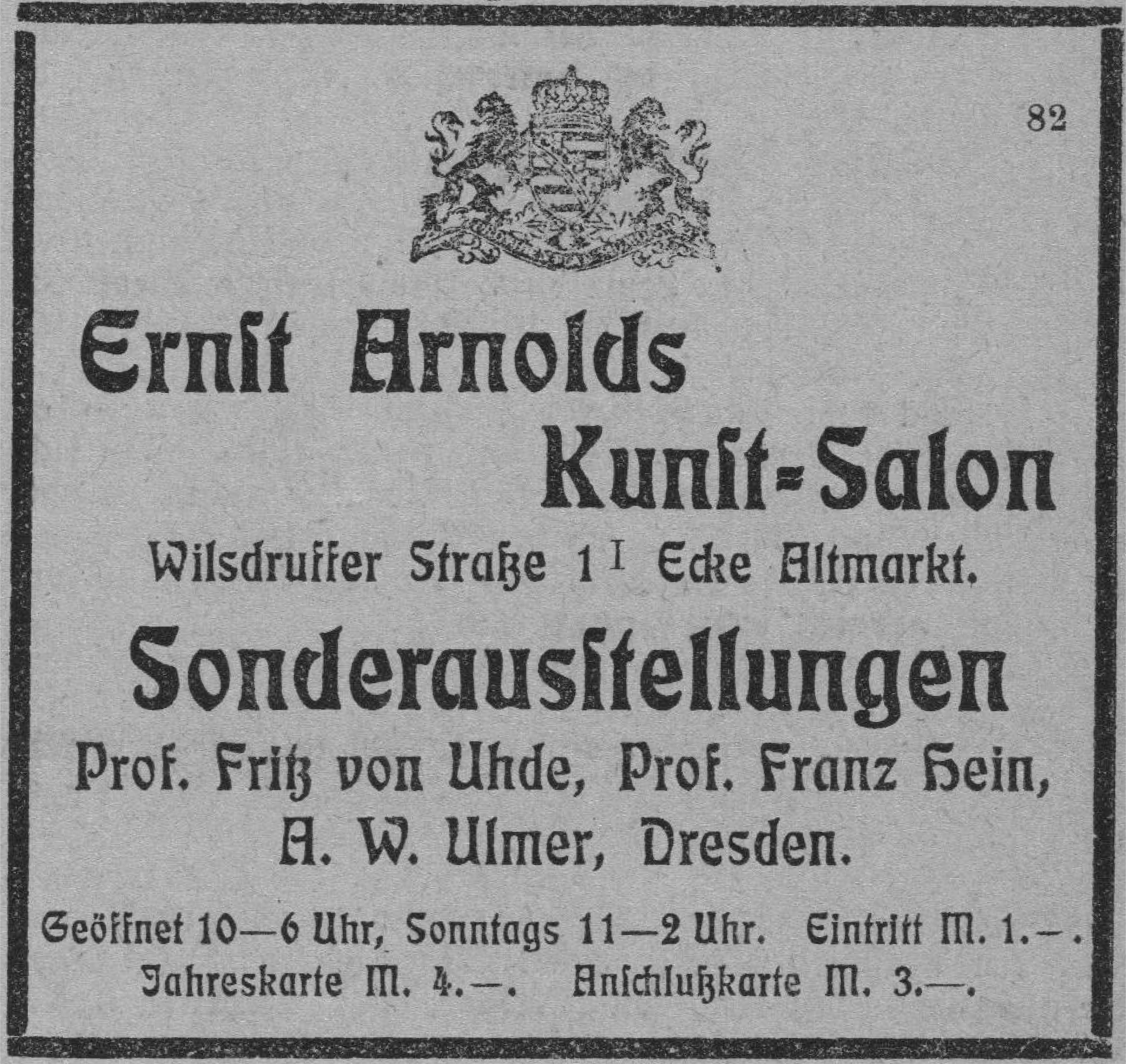 Scan from the Dresdner Journal, 1906